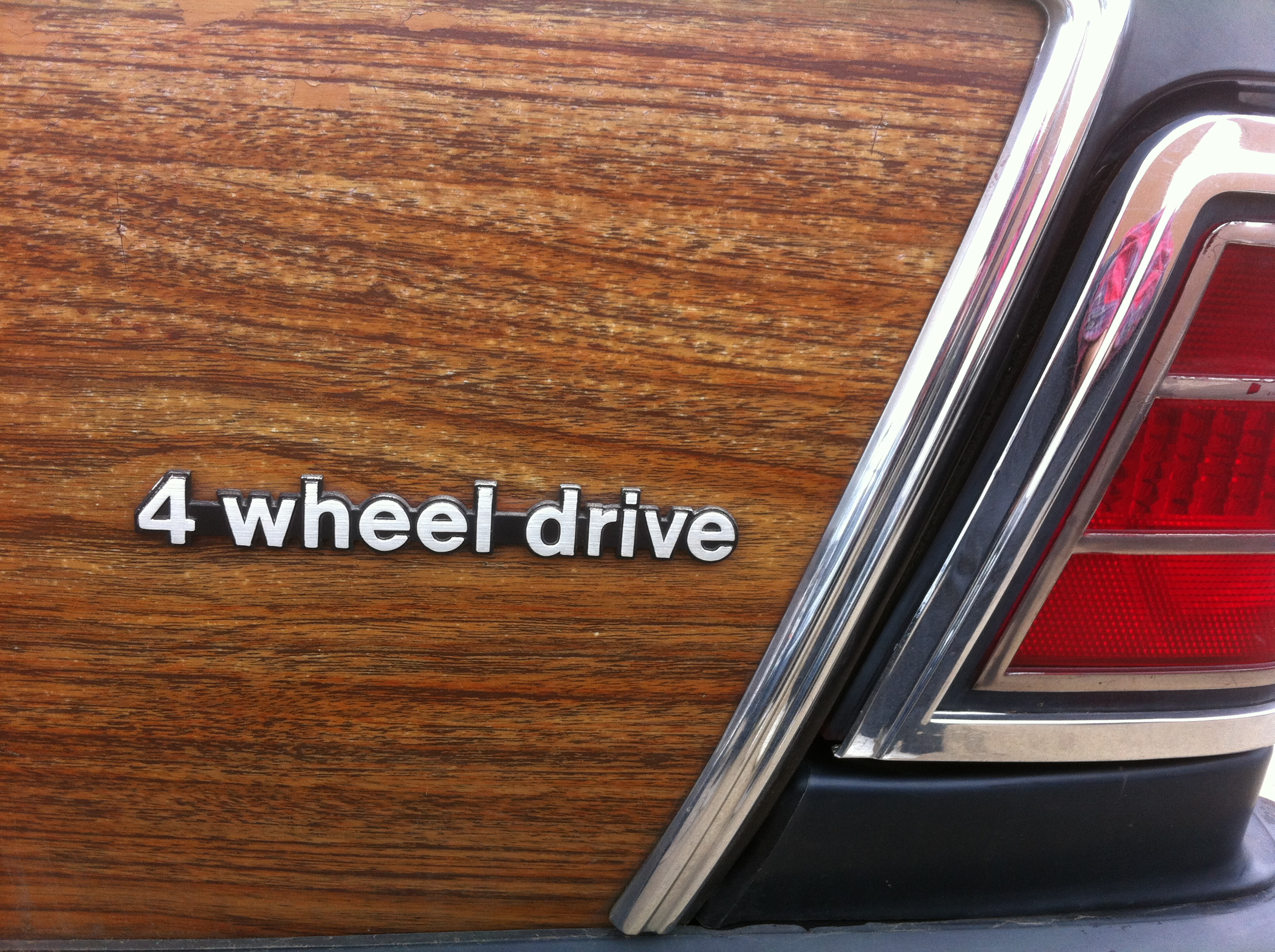 Detail of the 4WD badge on the left rear panel on a 1985 AMC Eagle station wagon, an innovative automatic all wheel drive vehicle made by the American Motors Corporation (AMC).